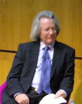 A C Grayling